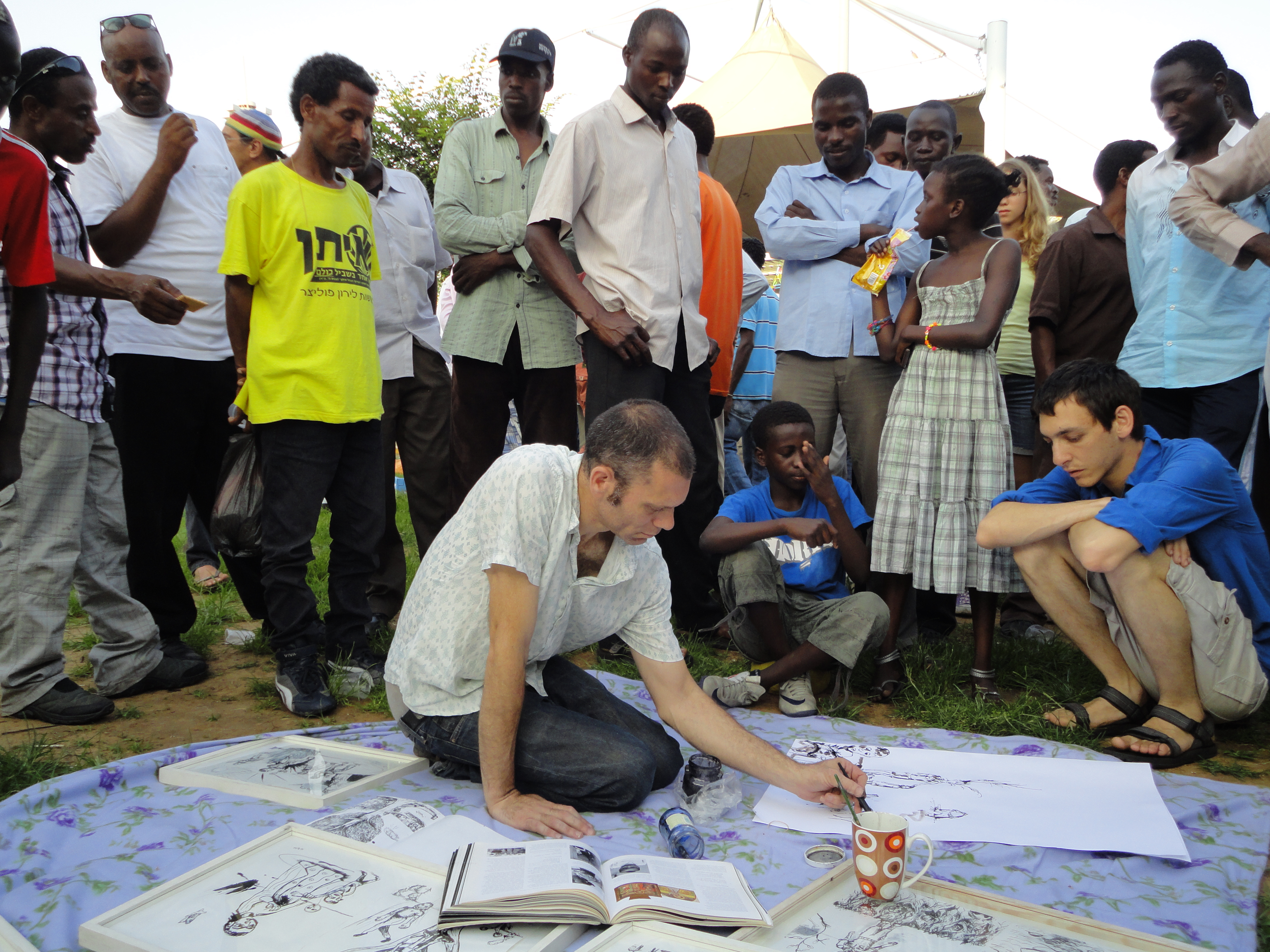 Peter Jacob Maltz at Evening in the Park, Art Picnic Levinski Garden, Neve Shaanan, Tel Aviv